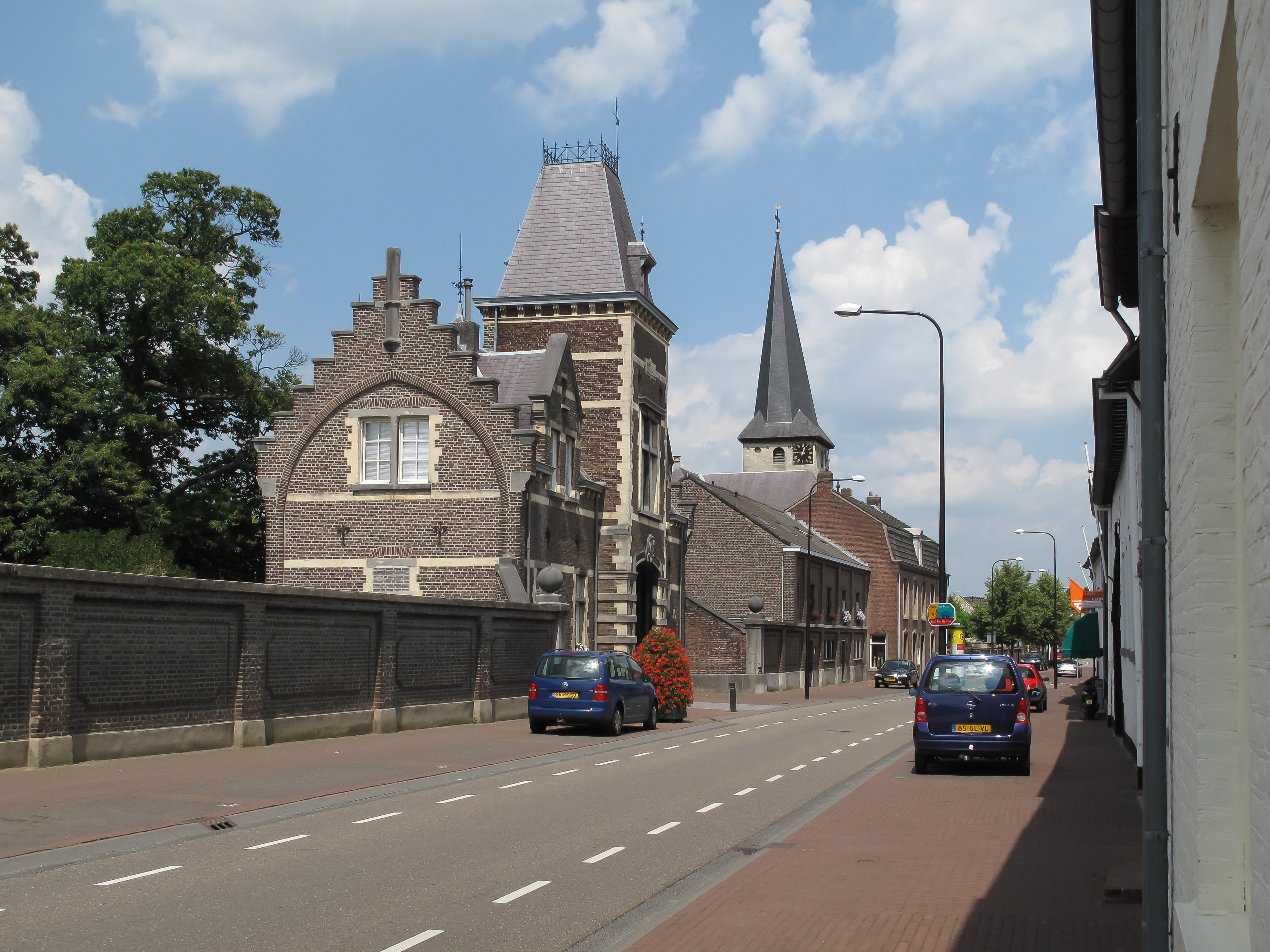 Gronsveld, view of the main street called Rijksweg, with in the front left the gate building of the castle and further on the churchtower